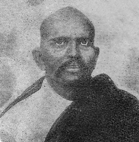 Maharishi Shiv Brat Lal Maharaj